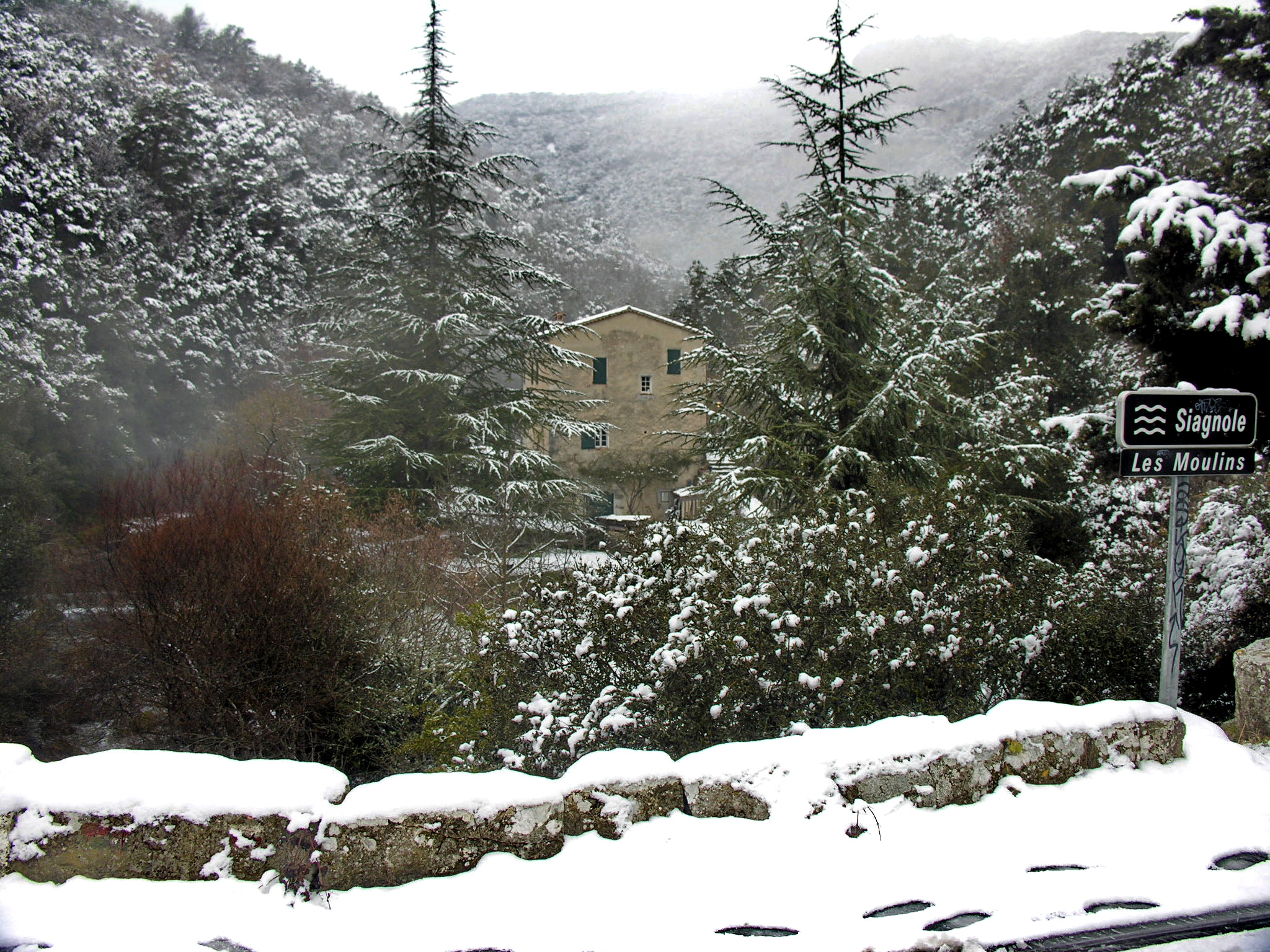 Mons(Var) Watermills in winter